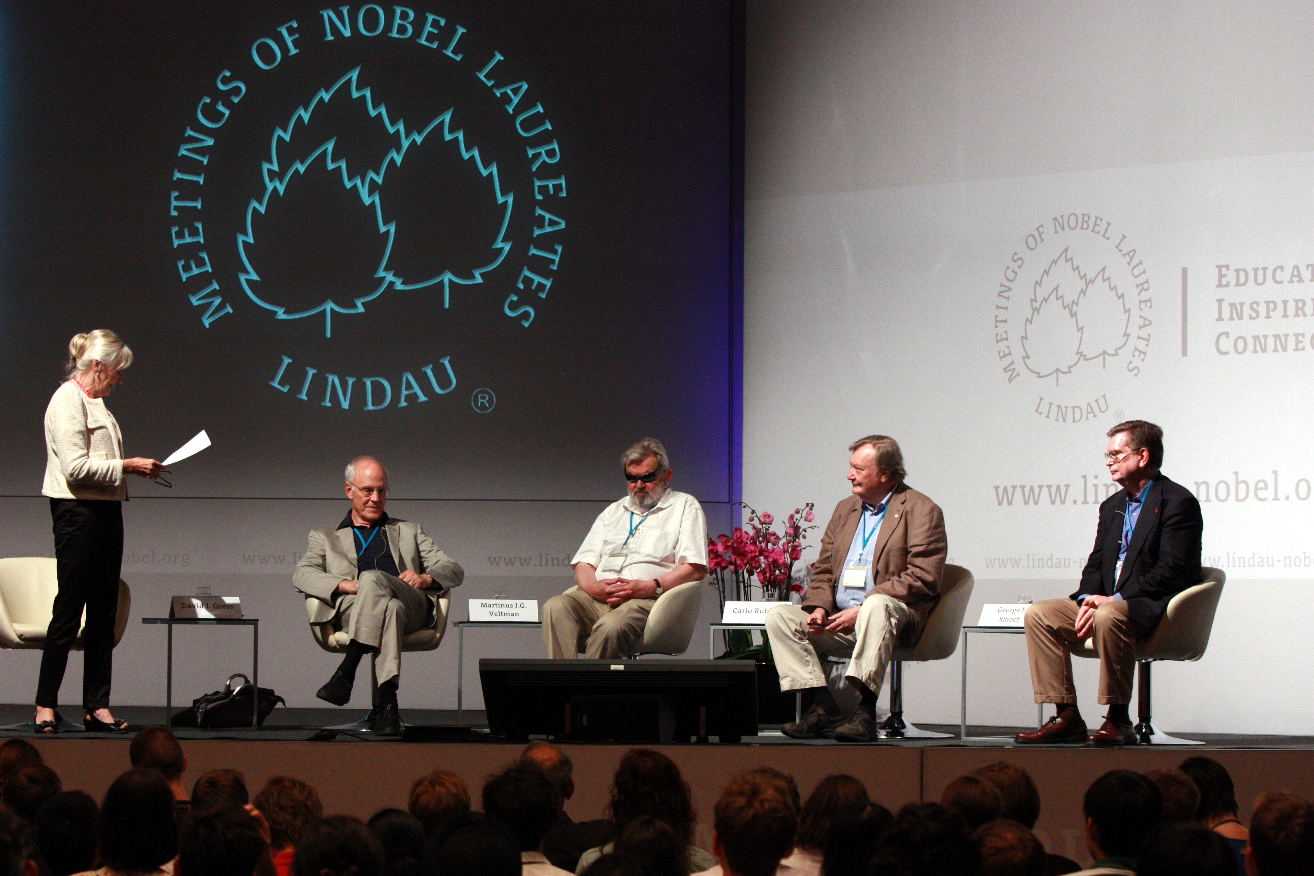 Panel discussion on the Higgs particle results from CERN at the 2012 Lindau Nobel Laureate Meeting. Seated from left to right: David Gross, Martinus Veltman, Carlo Rubbia, and George Smoot.